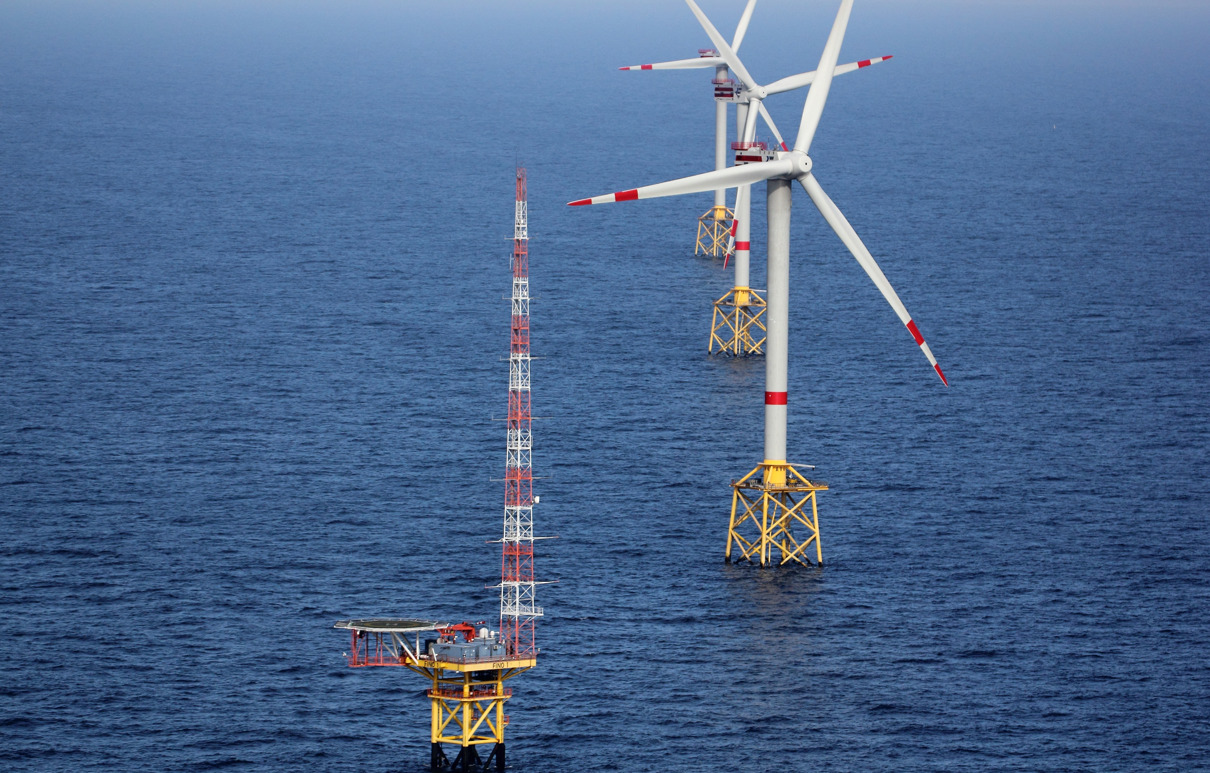 Aerial photograph of FINO 1 research platform (foreground) and three turbines of Alpha Ventus offshore wind farm